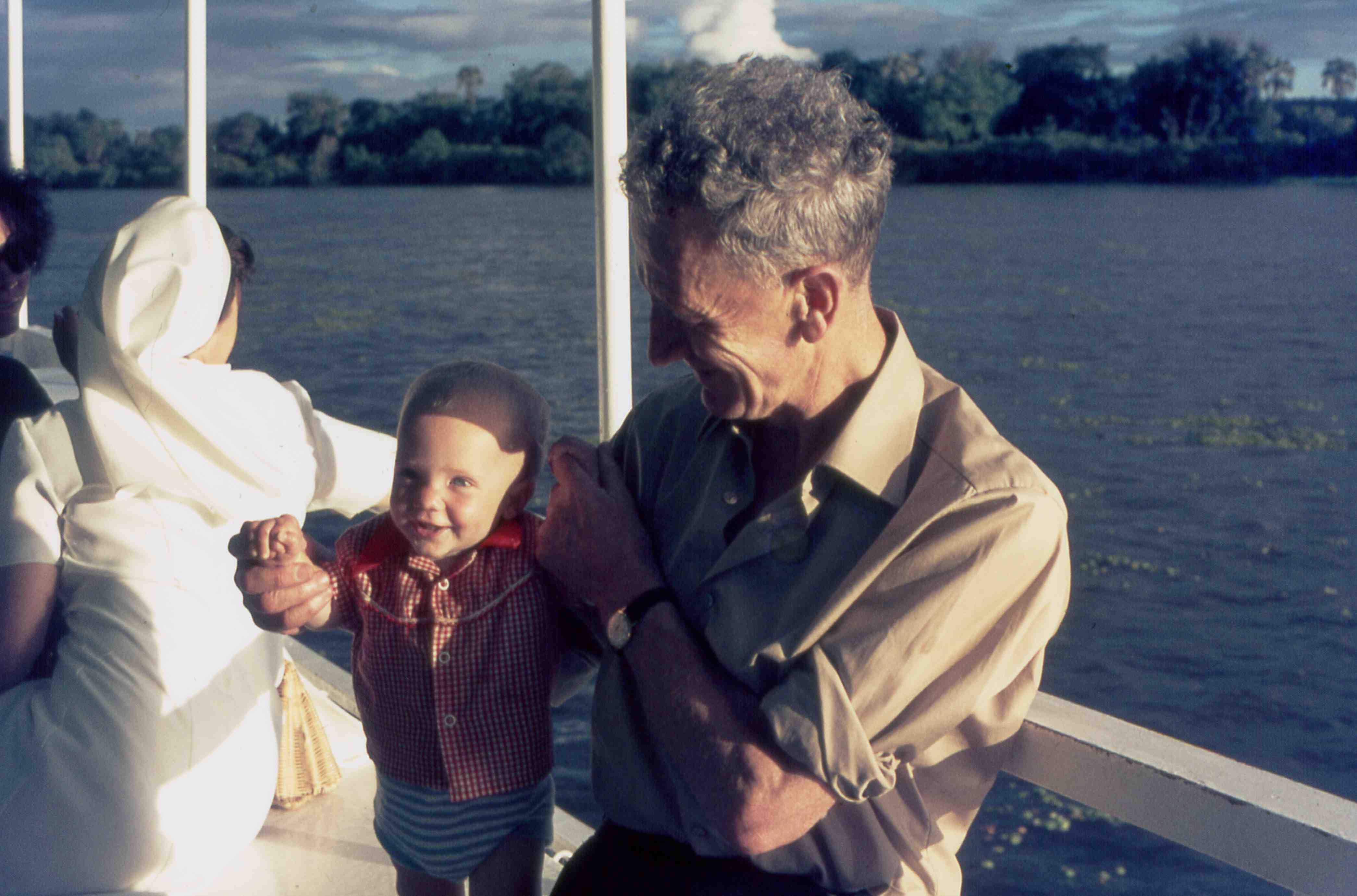 Tourist boat on the Zambezi River, Mosi-oa-Tunya National Park, Zambia